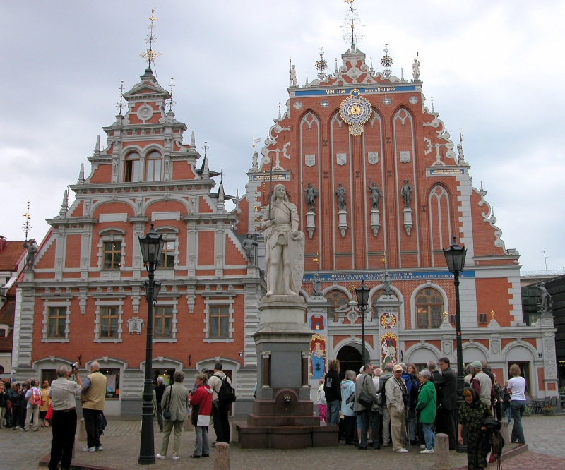 Riga: Full shot of the House of the Blackheads with Roland statue.